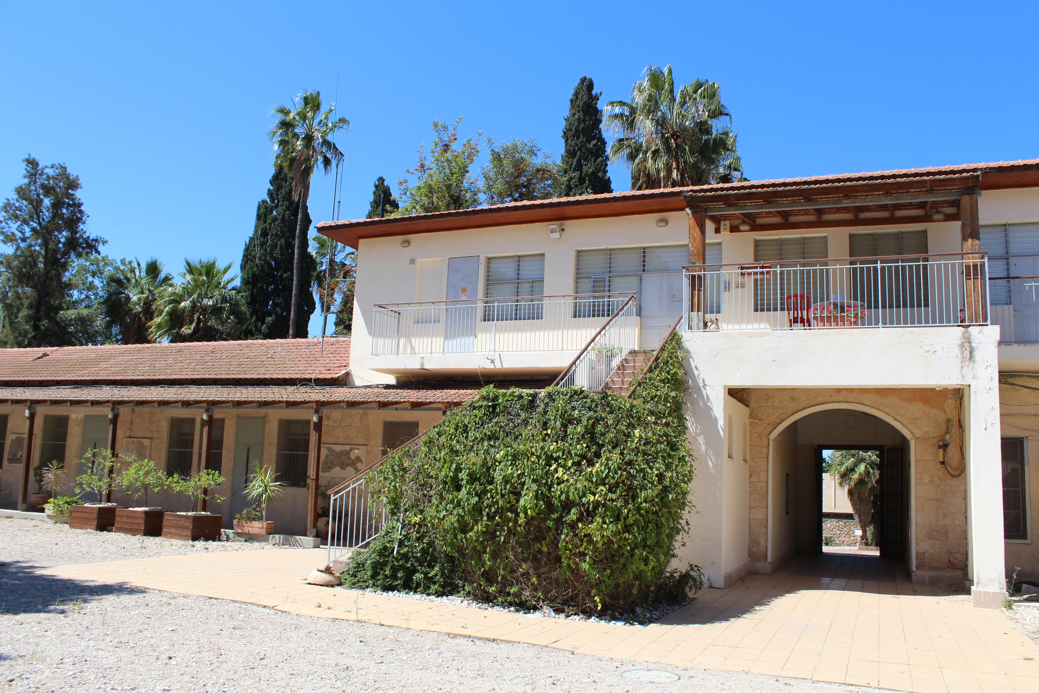 The Central Courtyard, Ben Shemen Youth Village, Israel This image was taken as part of the Elef Millim project trip to the Ben Shemen Youth Village in central Israel which was held on Friday, 11th April 2014. To view all images uploaded as part of the Elef Millim Project